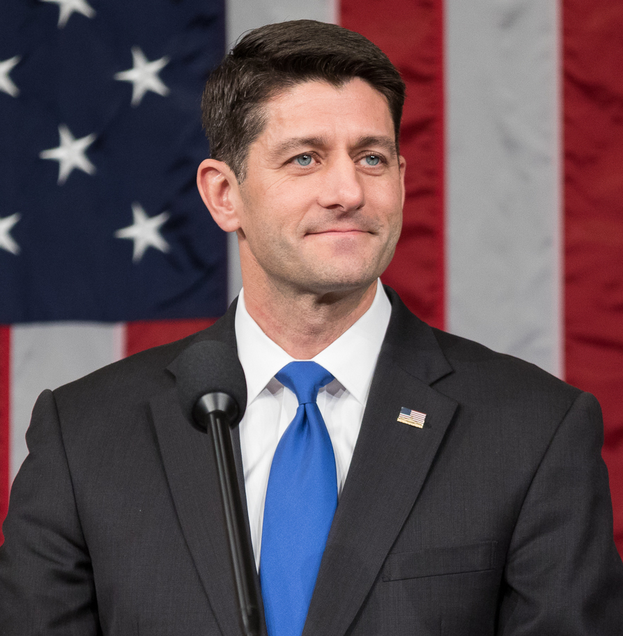 Speaker of the United States House of Representatives Paul Ryan's official photo